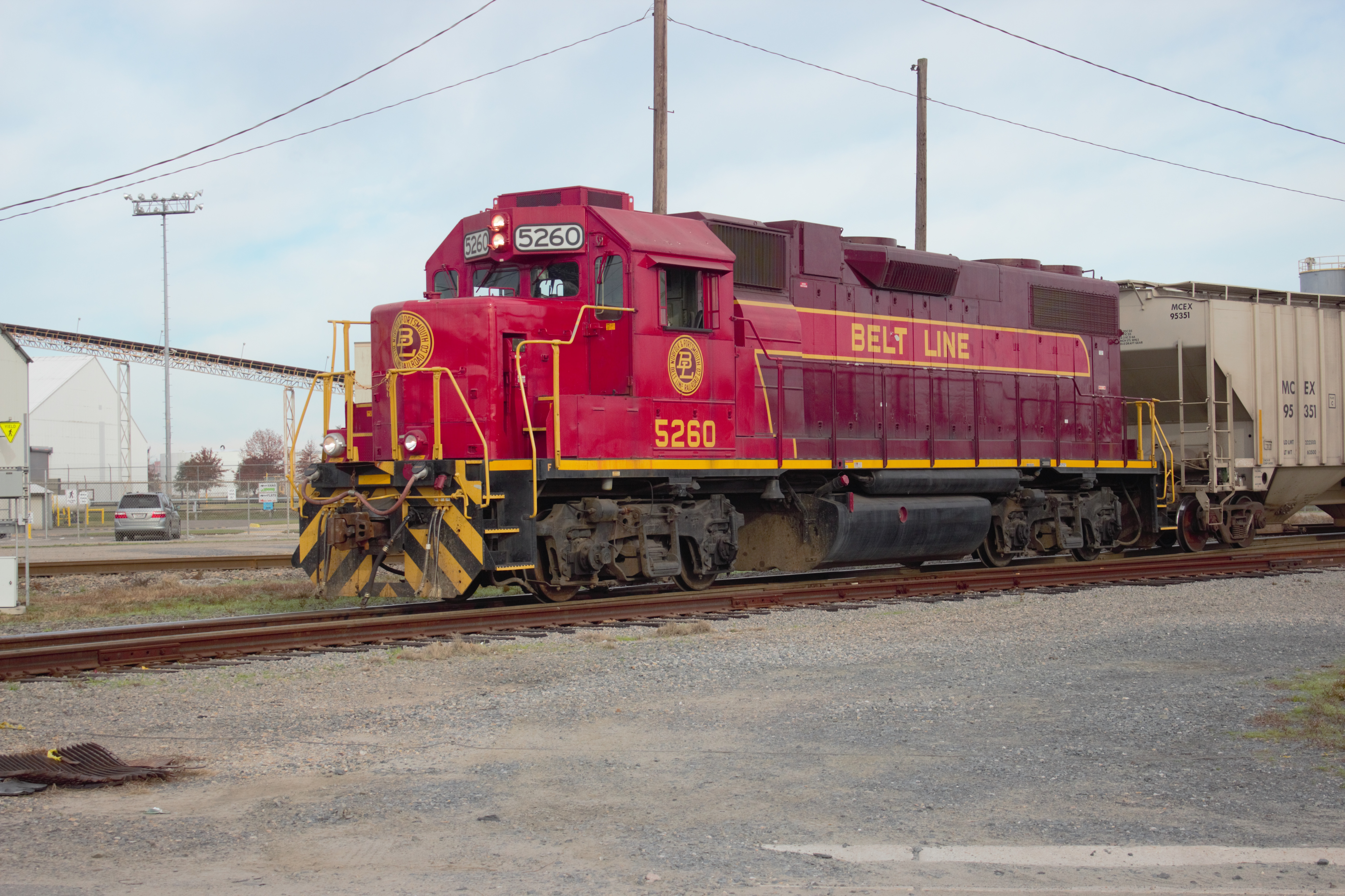 Norfolk & Portsmouth Belt Line EMD GP38-2 #5260 at south end of Berkley Yard in City of Chesapeake, Virginia; November, 2015. 5260 is painted a commemorative scheme as part of the Norfolk Southern, Heritage Program. Photographer: David E. George III